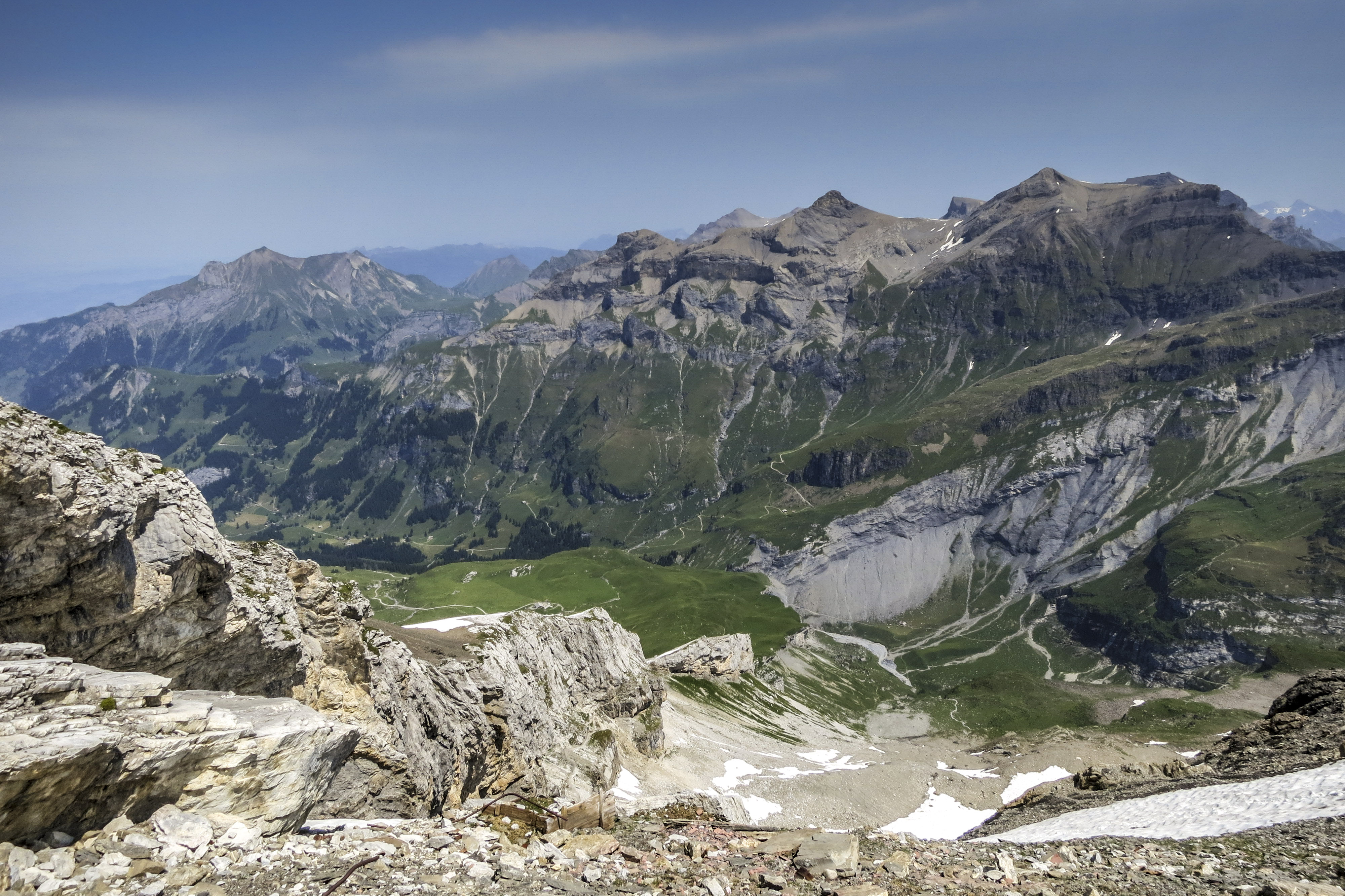 View from the Hohtuerli in the Kiental.